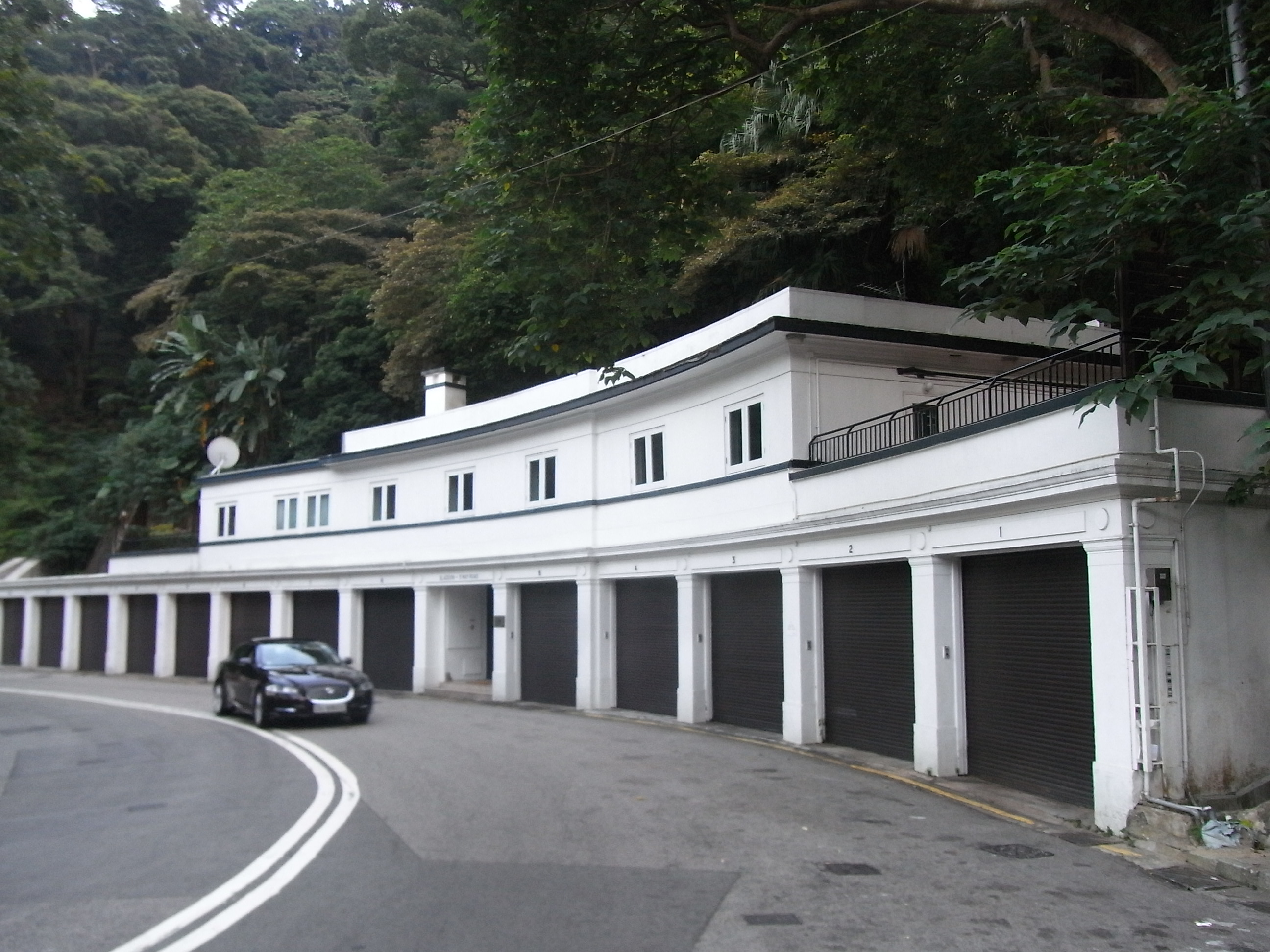 香港島 半山區 梅道, May Road, Mid-levels, Central, Hong Kong